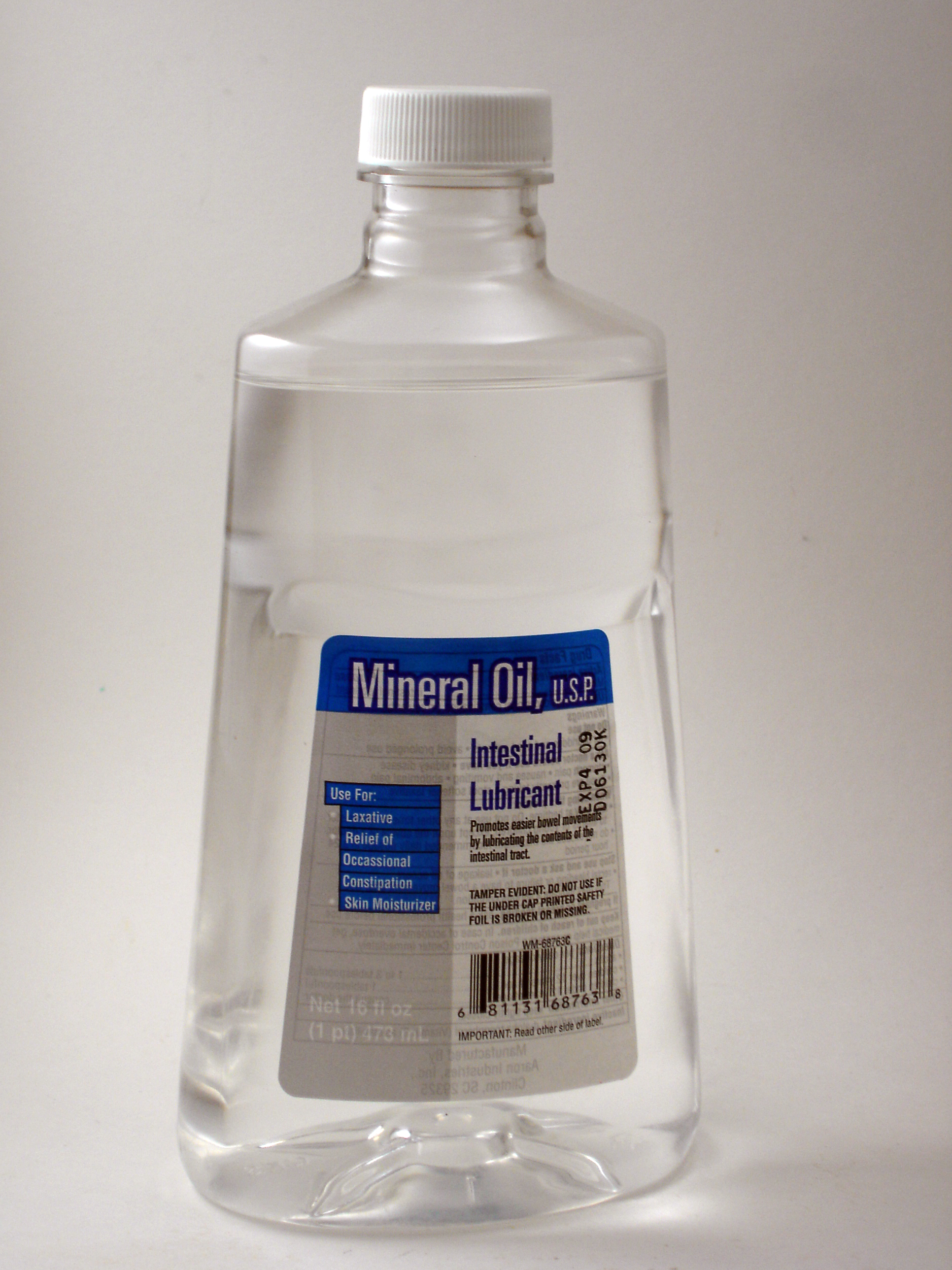 Mineral oil bottle as sold in the U.S., front.